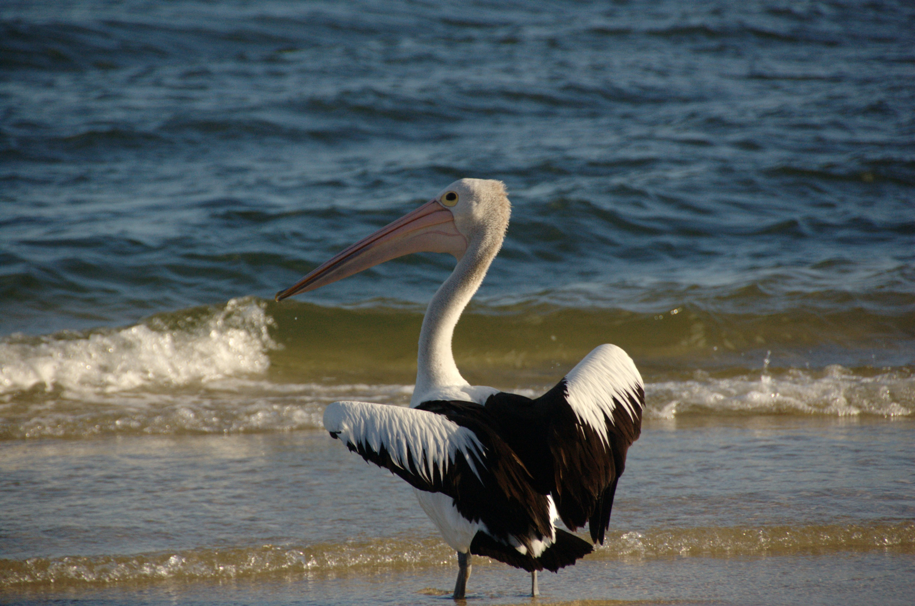 Australian Pelican (Pelecanus conspicillatus) at Georges River Yacht Club